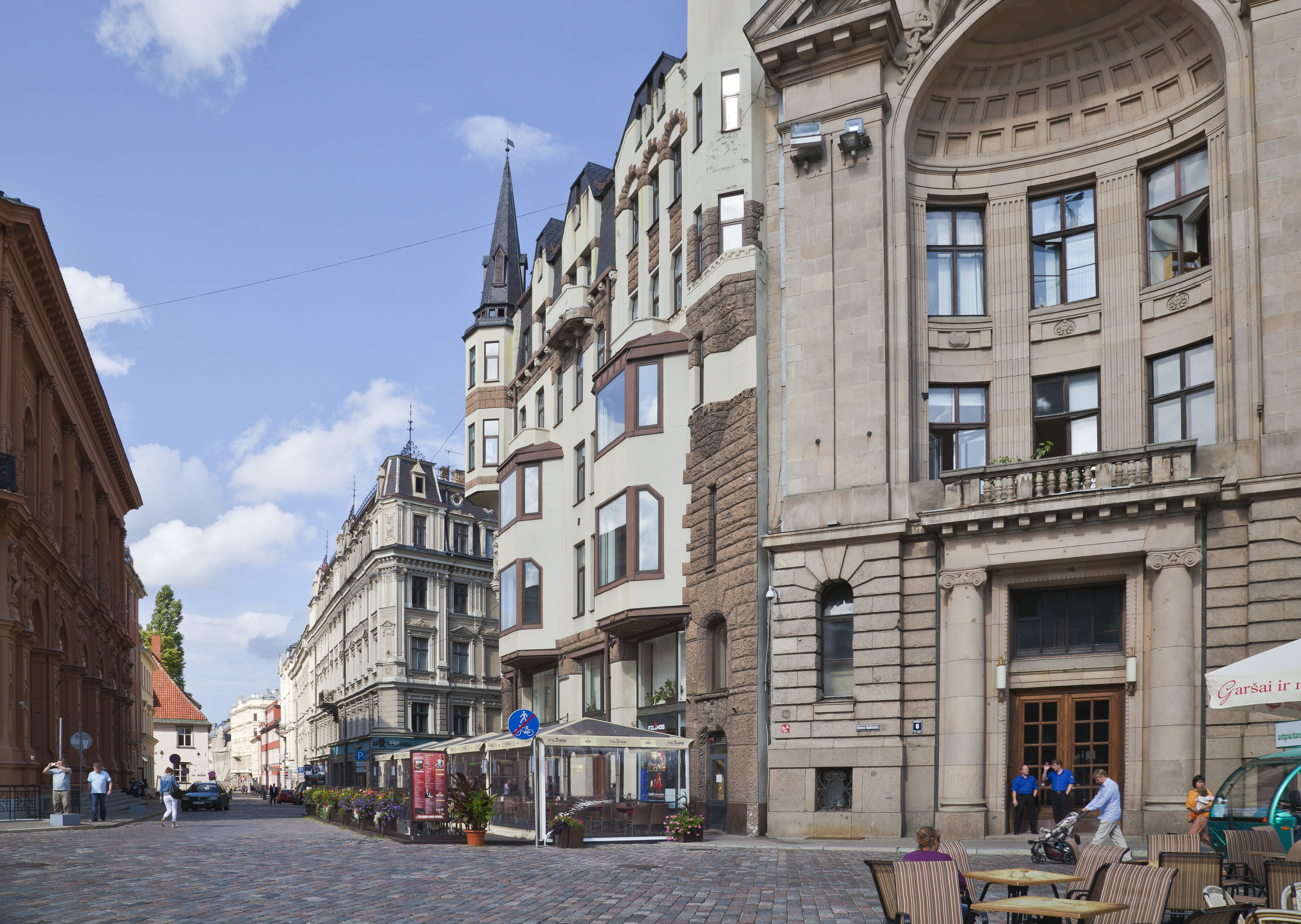 Pils St., Riga, Latvia